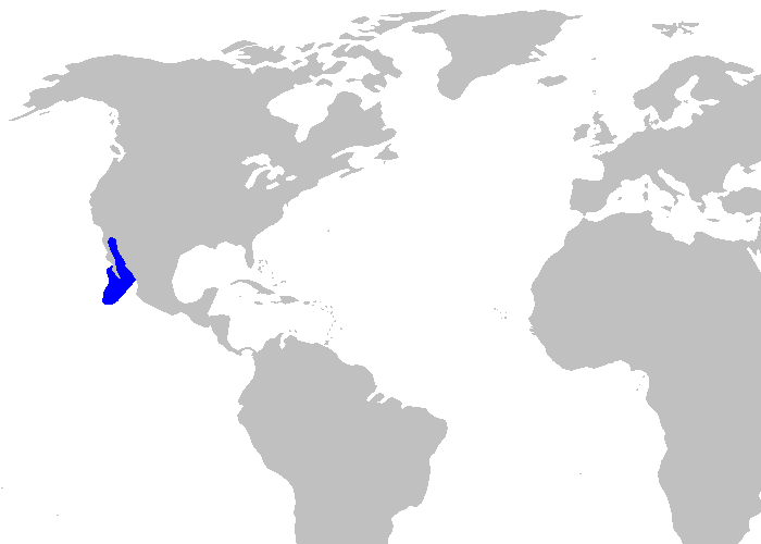 Distribution map for Cephalurus cephalus